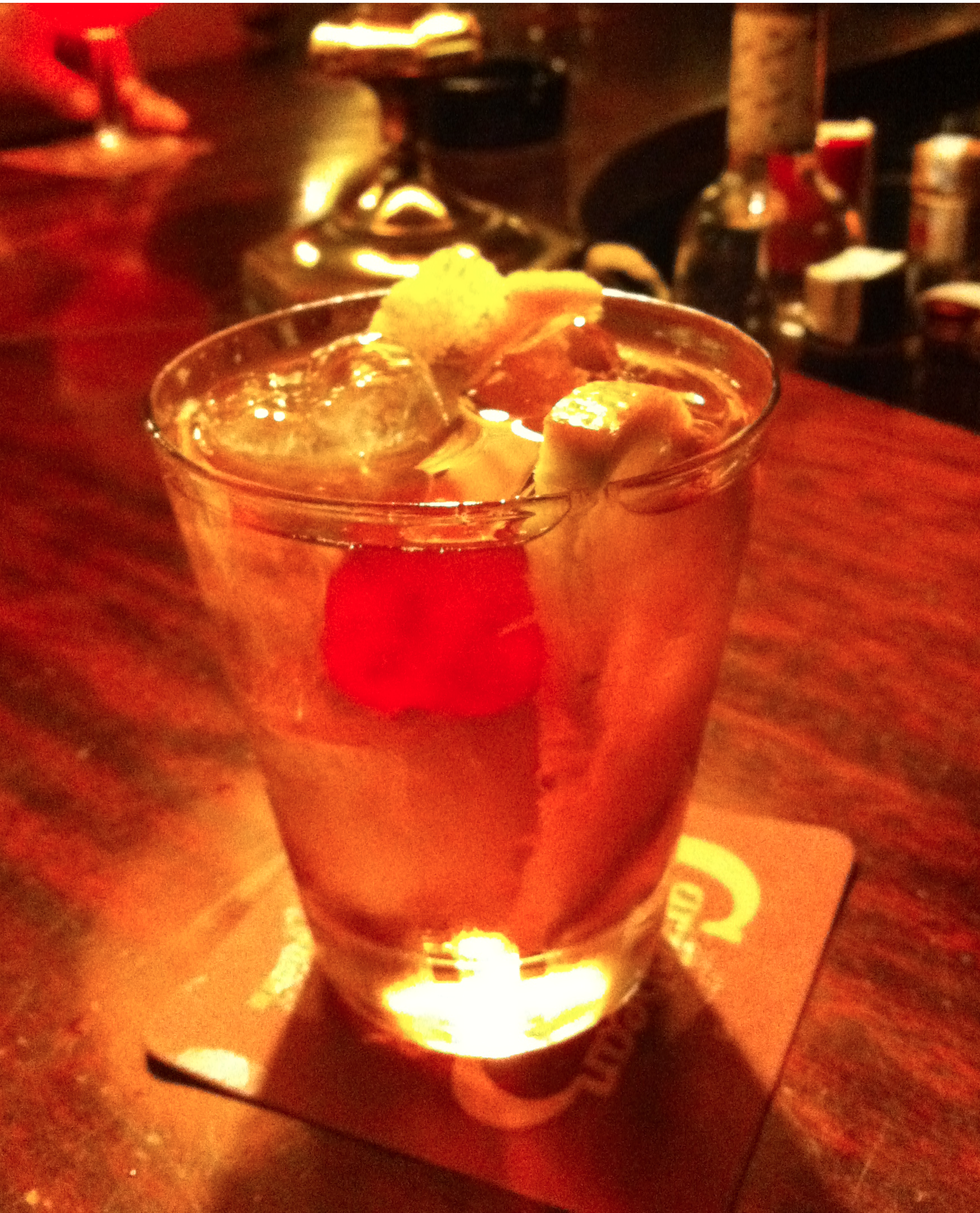 Picture of an Old Fashioned cocktail, taken at Boadas cocktail bar in Barcelona, Spain